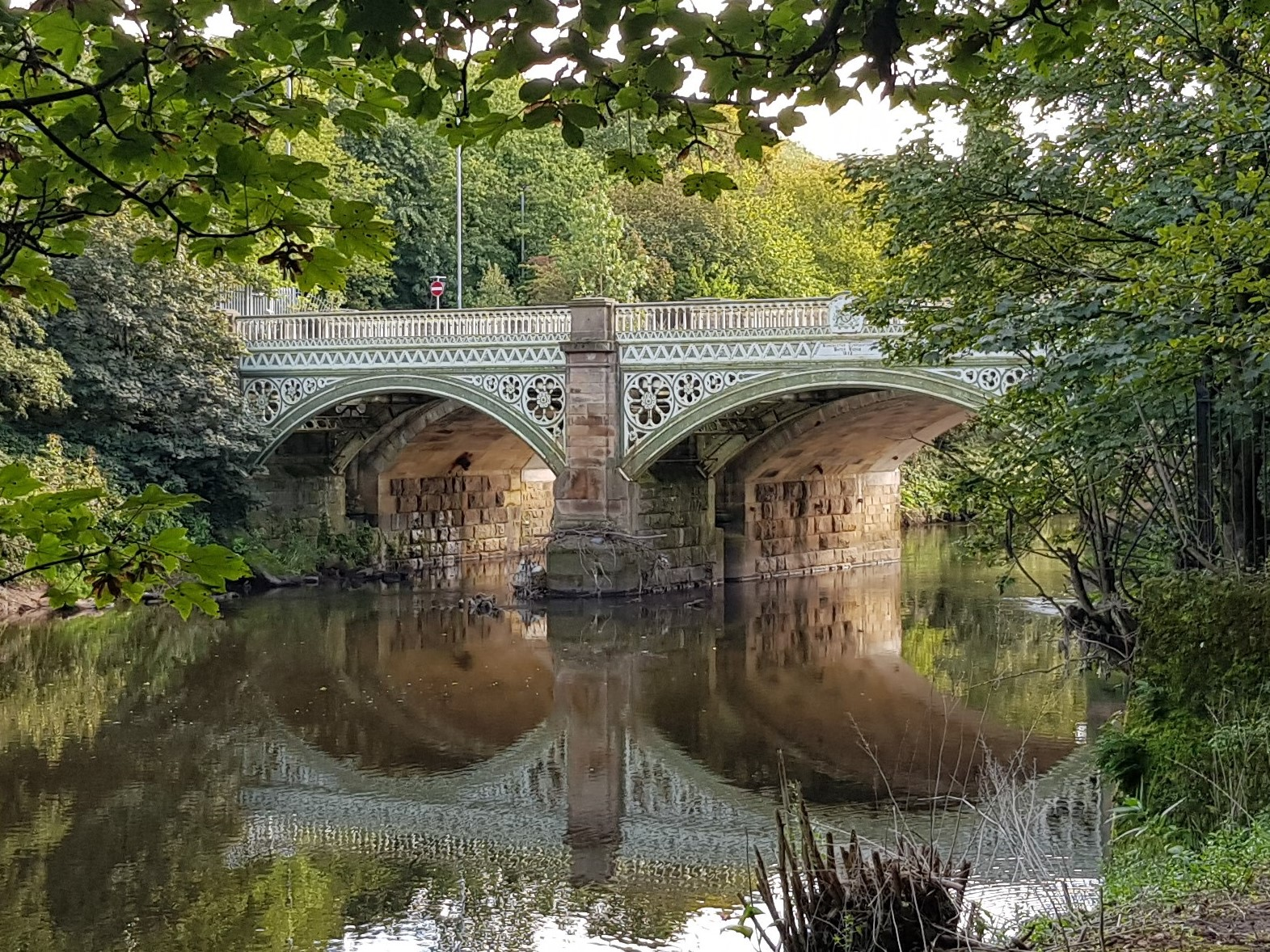 Grade II listed structure carrying the Thirlmere aqueduct over the River Irwell at Agecroft, Greater Manchester